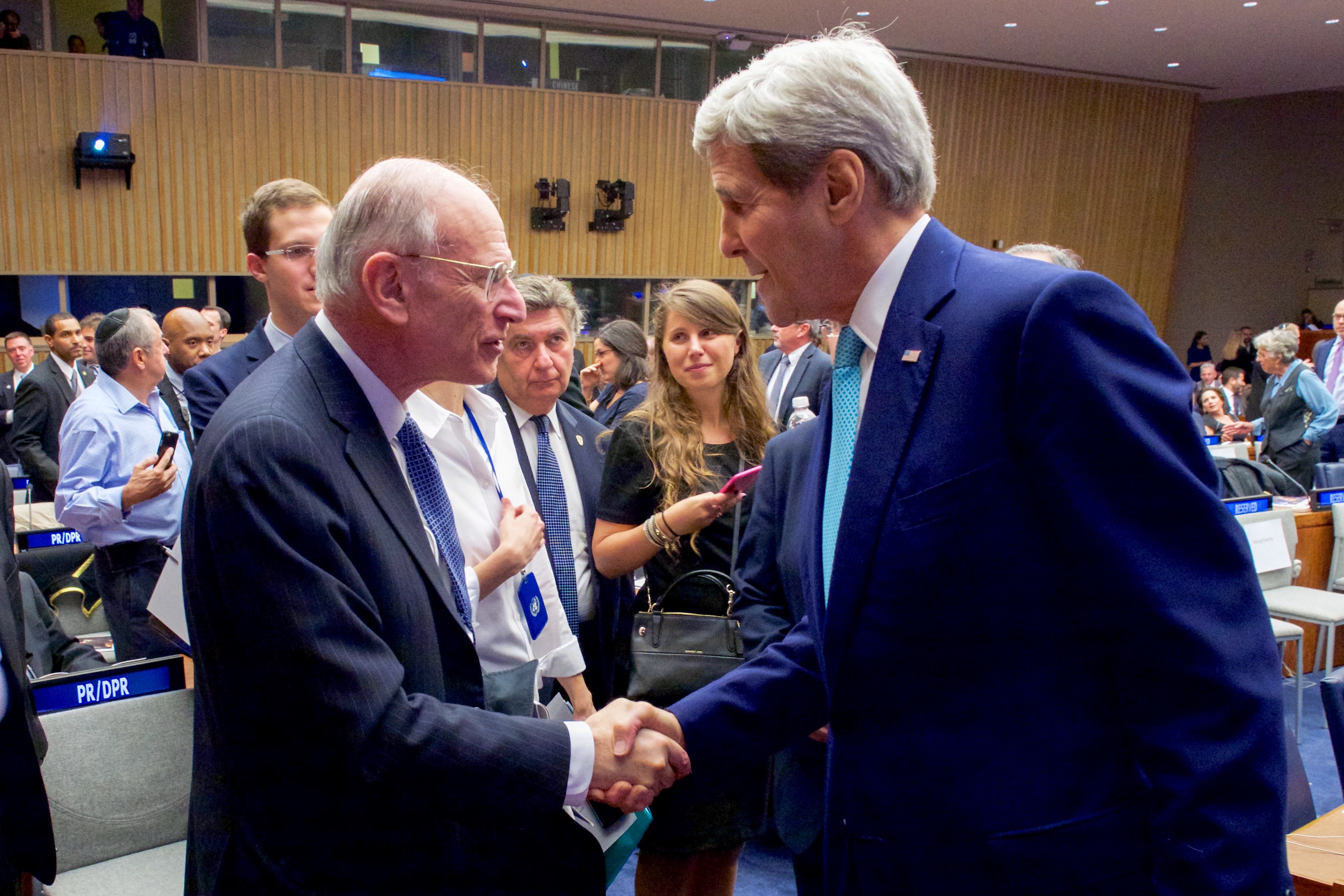 U.S. Secretary of State John Kerry greets former U.S. diplomat Stuart Eizenstat before delivering remarks at the “Battle for Zionism at the U.N.: Marking 40 Years Since the Historic Speech of President Chaim Herzog,” on November 11, 2015, at the United Nations Headquarters in New York, N.Y. [State Department photo/ Public Domain]